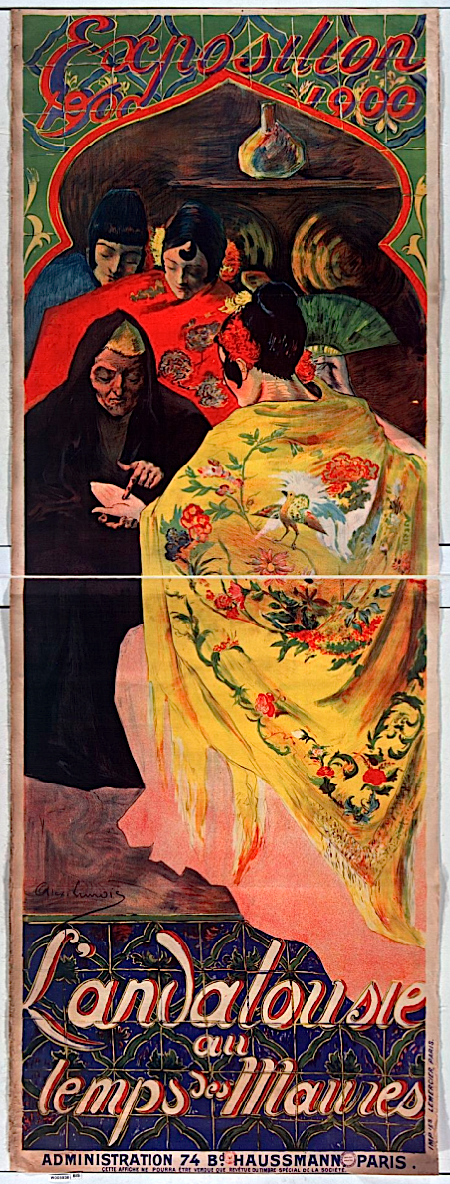 Exposition 1900. L'Andalousie au temps des Maures, lithographic poster, printed in Paris by Lemercier. Dim. : 255 x 94 cm.